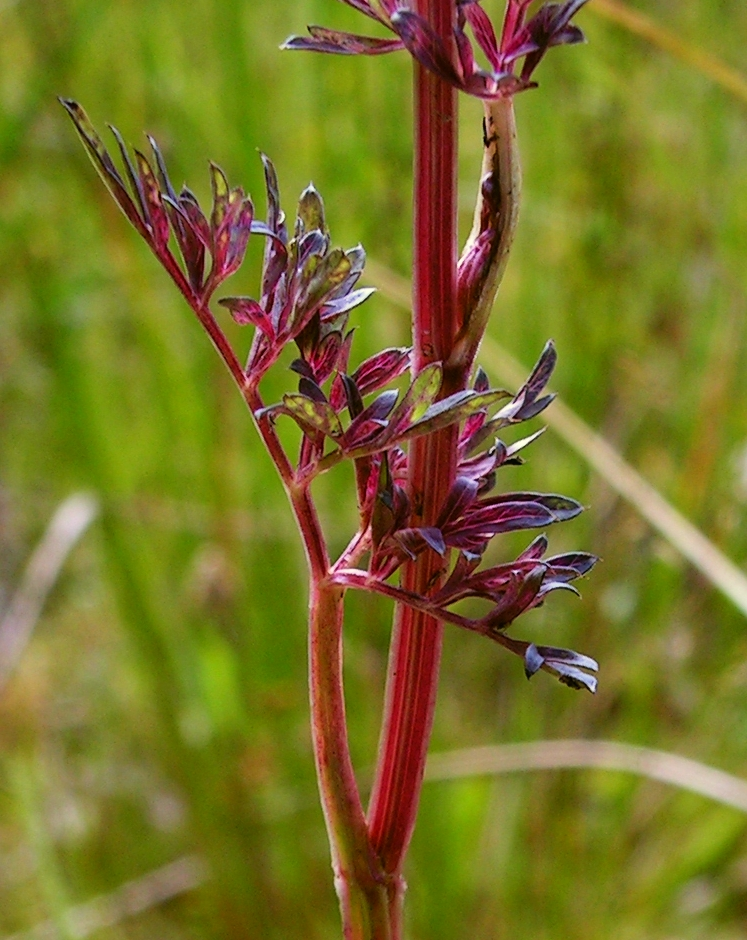 Selinum carvifolia (?). Moscow region, Russia.